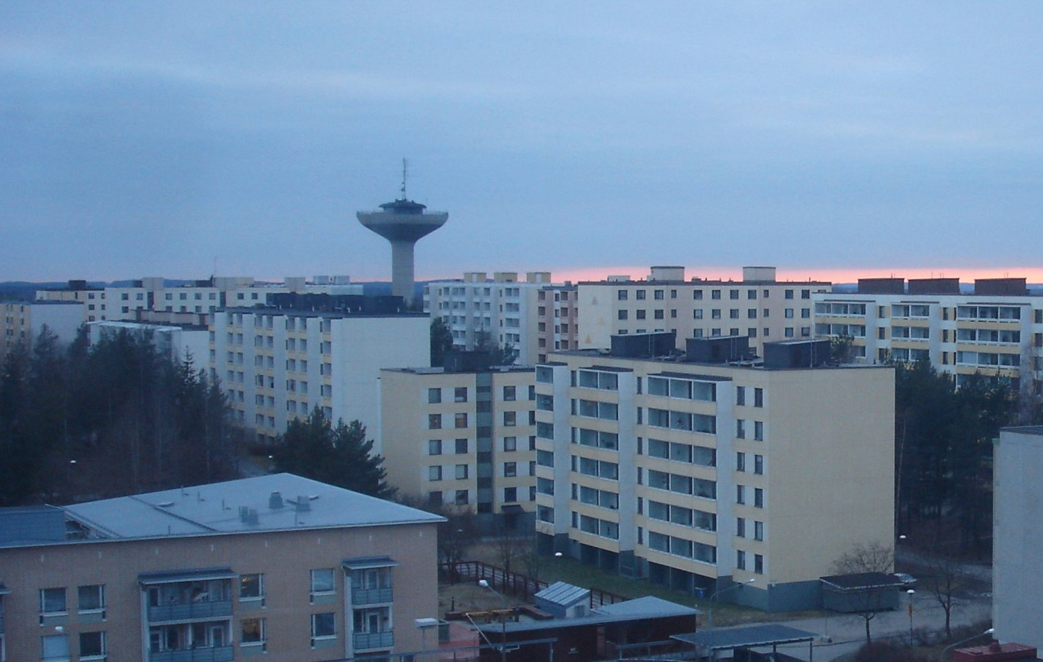 The water tower is an essential part of the skyline in Hervanta (en), Tampere, Finland